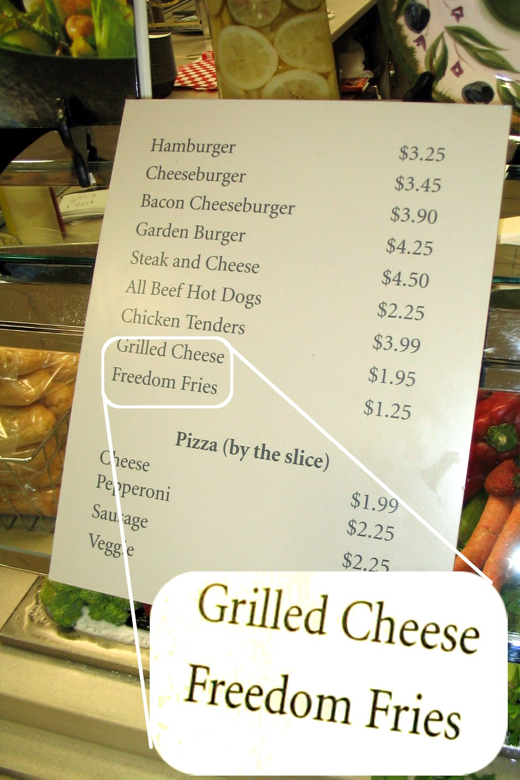 Menu from a United States House of Representatives cafeteria featuring "Freedom Fries"